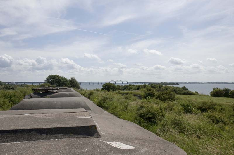 Masnedøfort situated in the southeastern part of Denmark. Photo taken by Jørgen Larsen, 2007-06-22